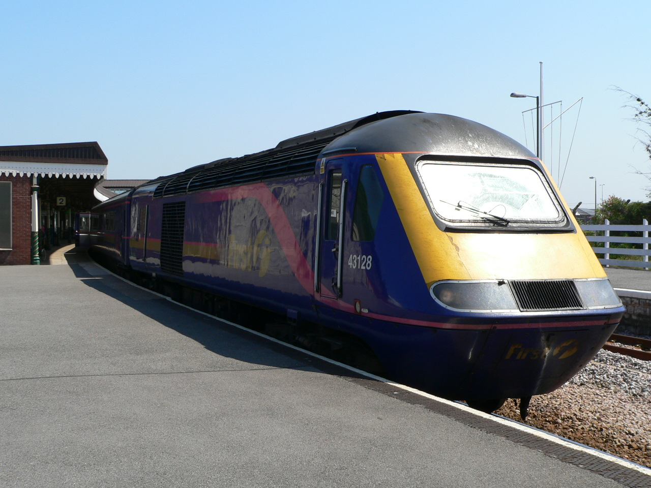 First Great Western Class 43 HST 43128 at platform 2 of Weston Super Mare railway station.